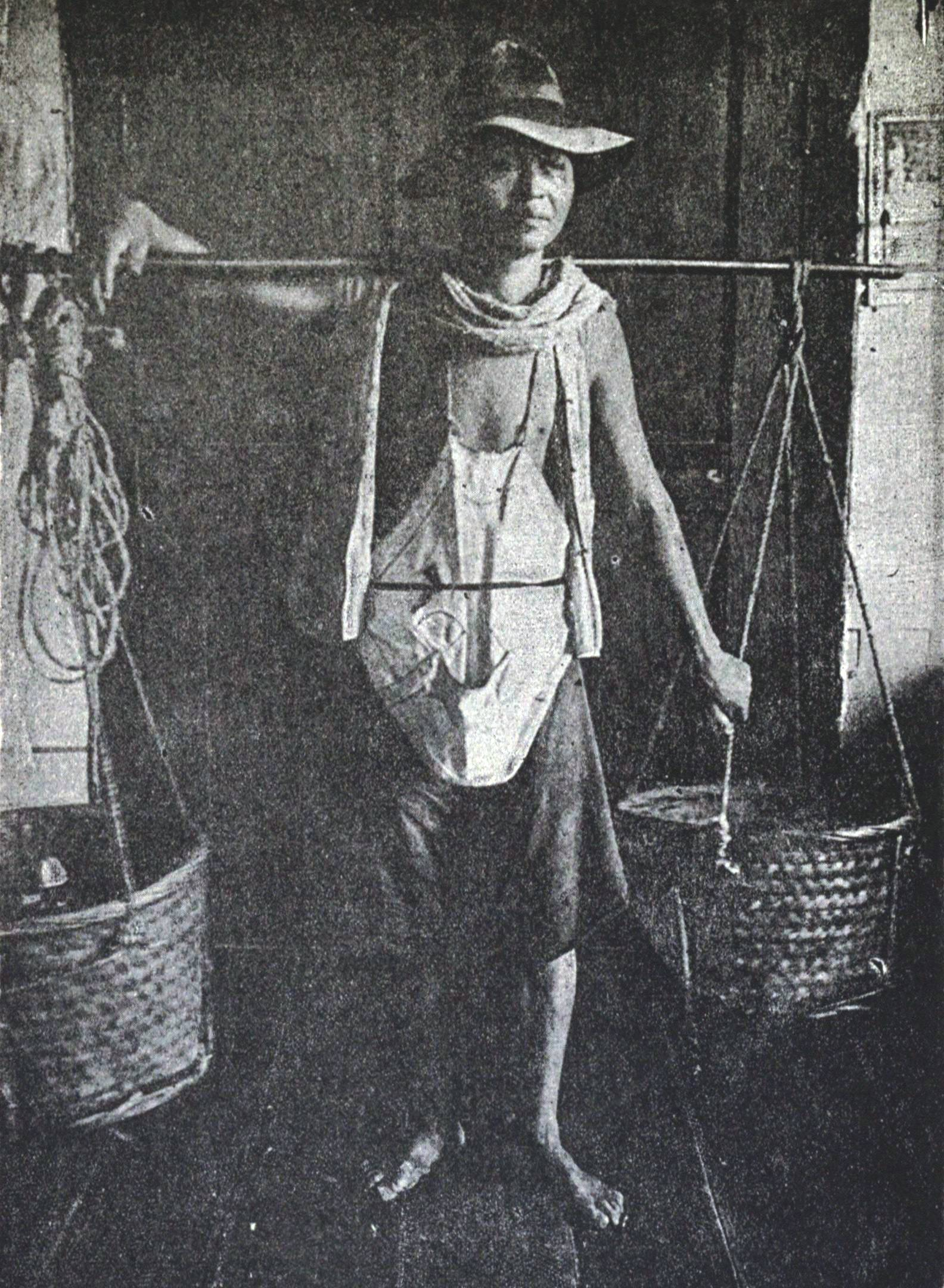 Original description (cropped out): A Typical Chinese Coolie. Before and for some time after the American occupation, the corabao [sic] and coolie were the only competitors in the city's heavy transportations. From Souvenir of the 8th Army Corps, Philippine Expedition, published by Dow Bros. in Manila, 1899.